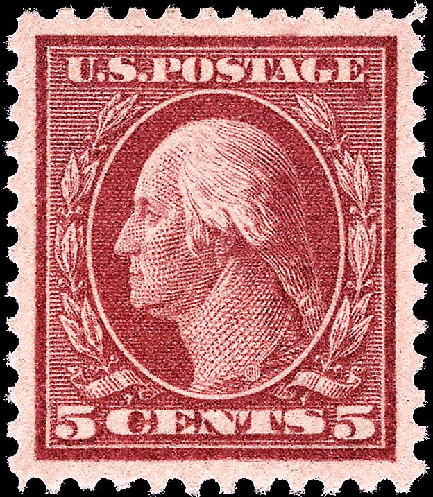 5 cent error in the Washington Franklin series (scanned from my own stamp)